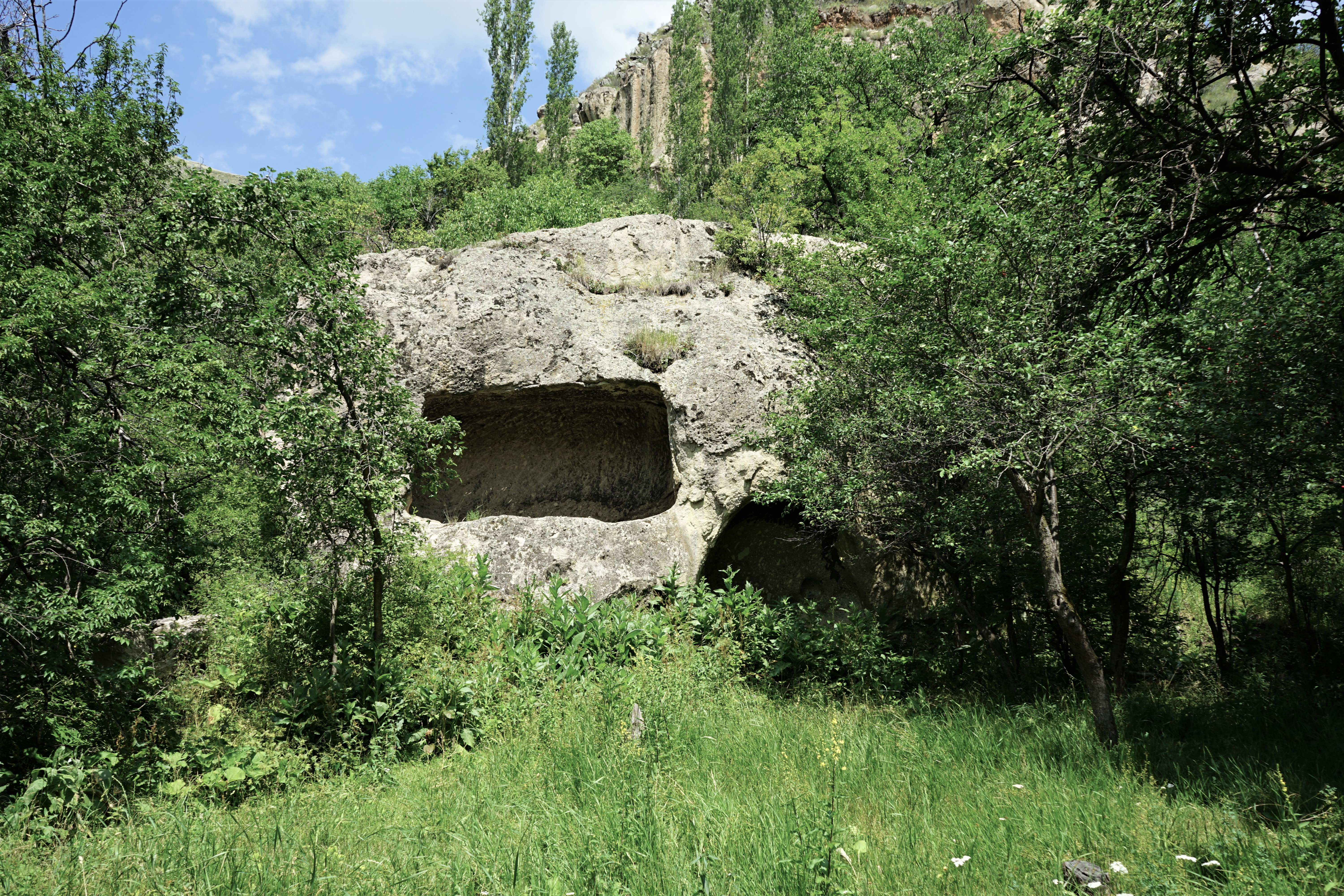 Stone winepress in Chachkari Village, Aspindza Municipality, Georgia